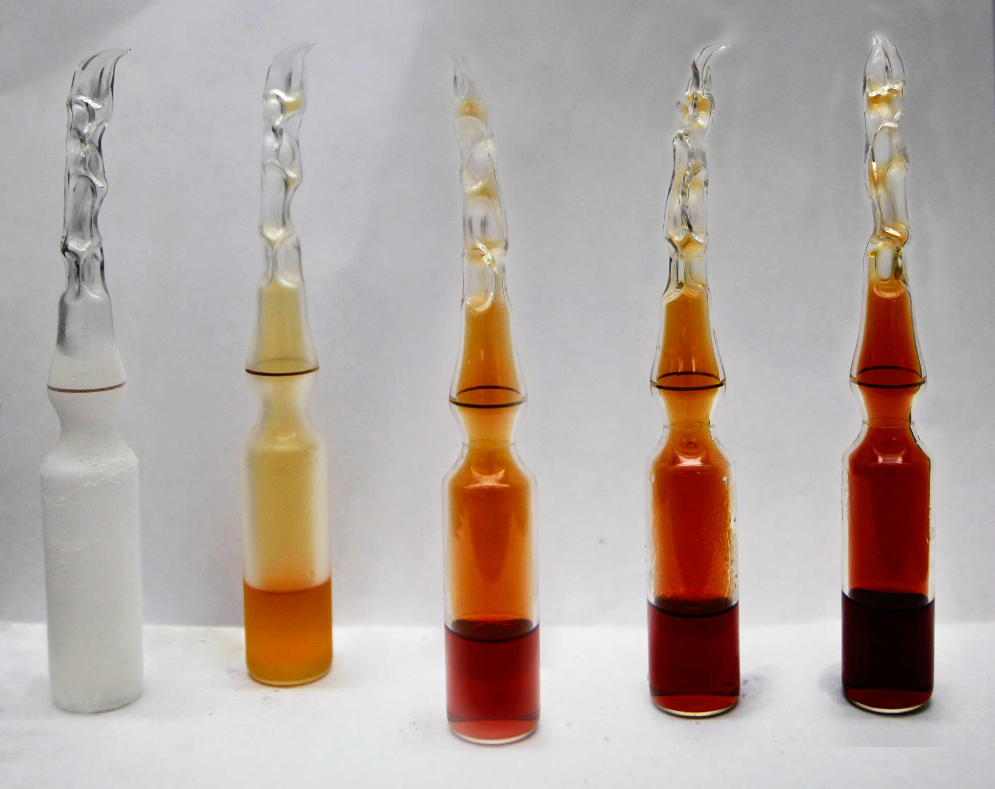 An overlay of the same 99.9% pure NO2/N2O4 sealed in an ampoule. From left to right -196 °C, 0 °C, 23 °C, 35 °C, 50 °C